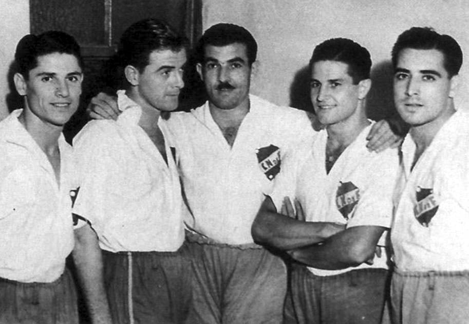 Attacking line of Club Nacional de Football that won five consecutive Uruguayan championships (1939-43, known as "The Quinquennium") and leadered by Atilio García.